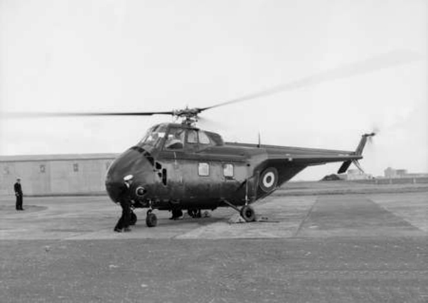 A Westland Whirlwind HAR.21 helicopter of 848 Naval Air Squadron, Royal Navy, from the aircraft carrier HMS Perseus (R51) at RAF Hal Far, Malta.